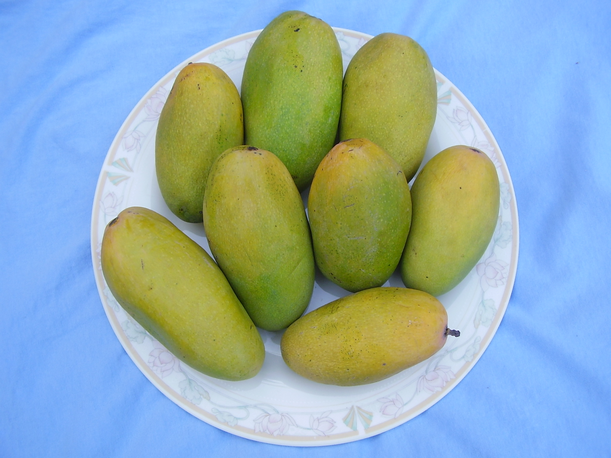 Dusehri is a variety of mango from Pakistan